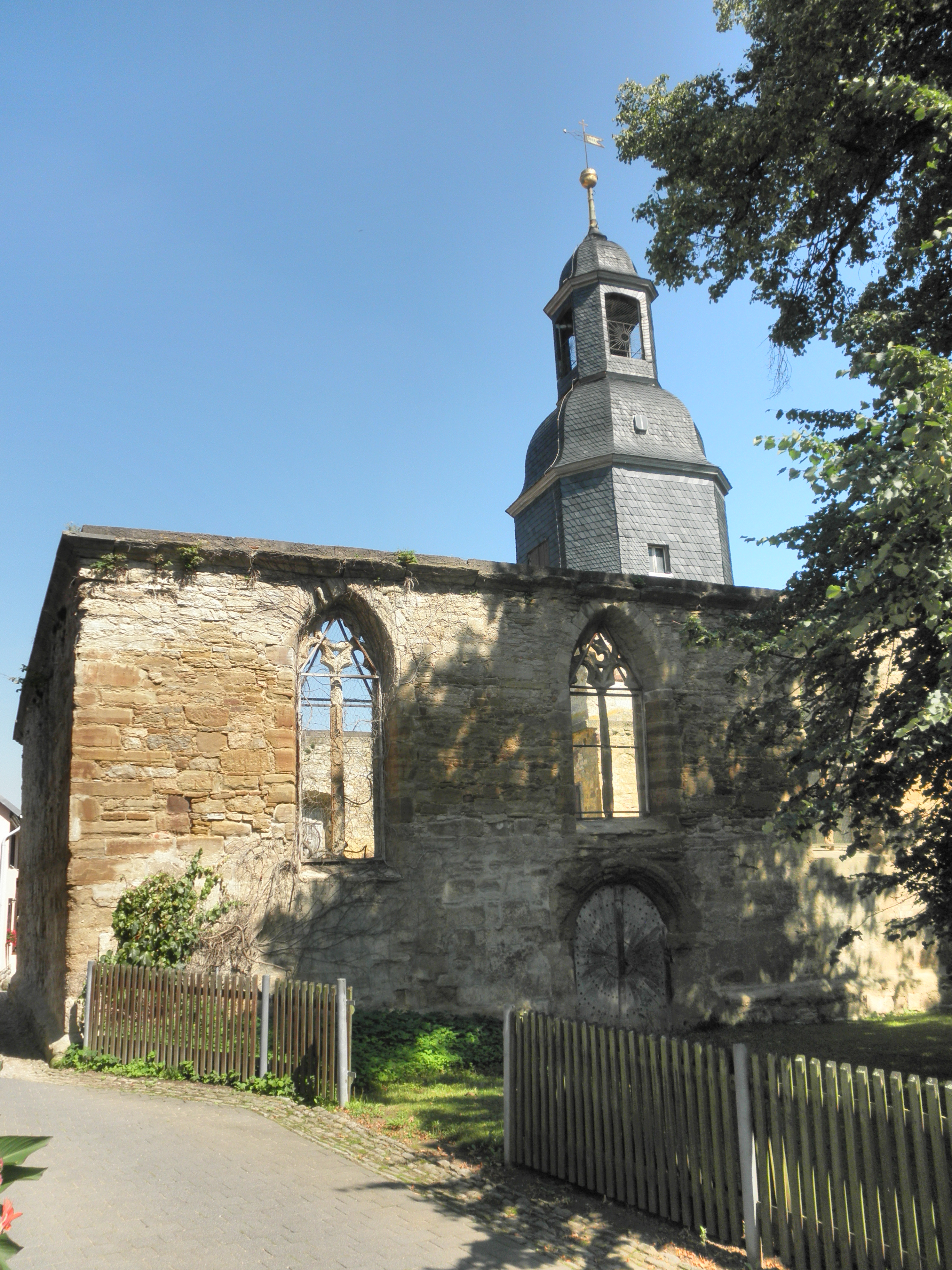 Ruin of the Church in Neunheilingen in Thuringia